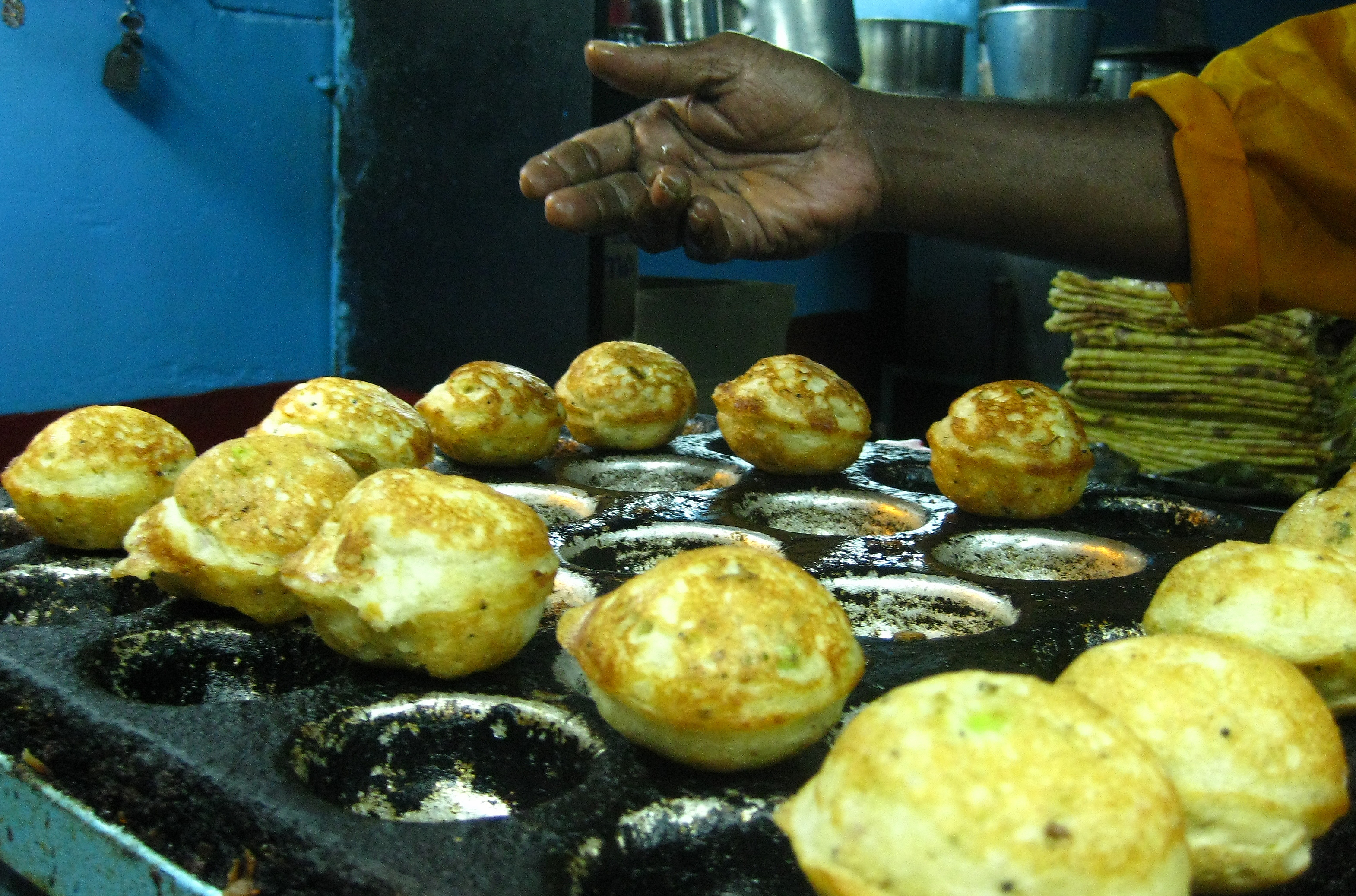 Kuzhi Paniyaram is a sweet soft pancake made with idli batter.